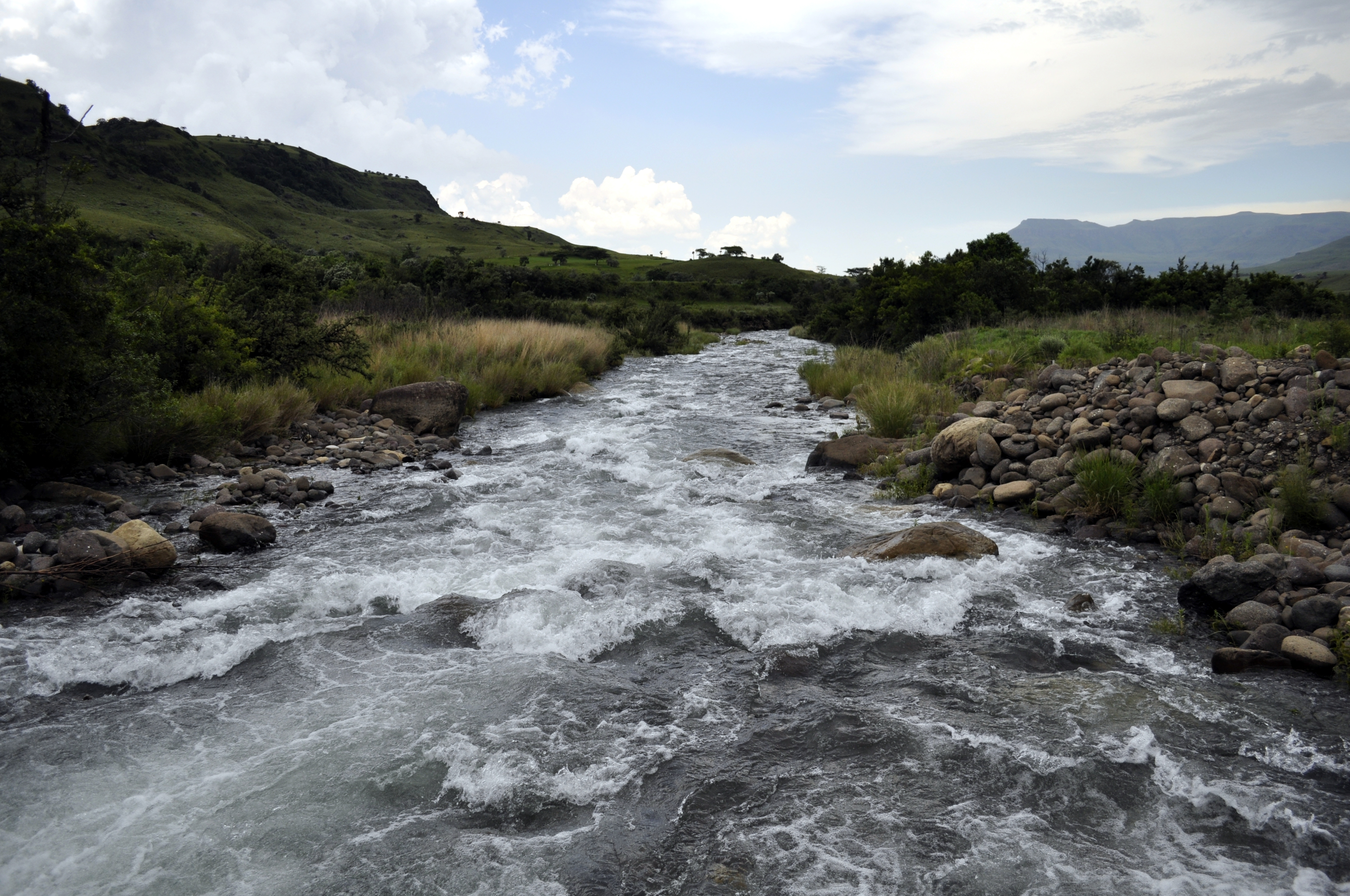 Mlambonja River near the Cathedral Peak Hotel, KZN, South Africa. The Mlambonja is a right bank tributary of the Tugela River.